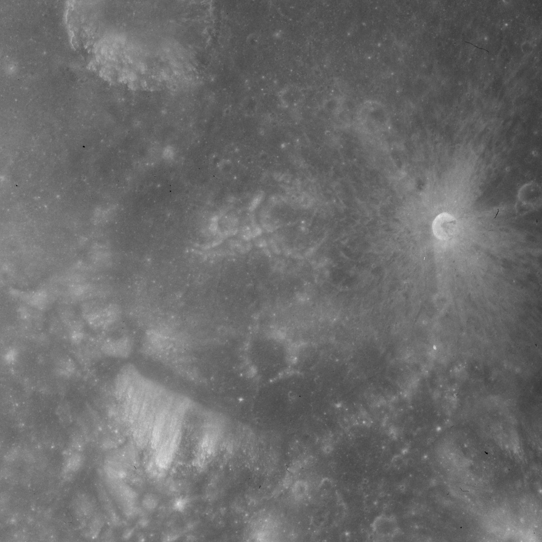 Lick, on the moon. North at top. From altitude 114 km, and high sun angle of 70 degrees.